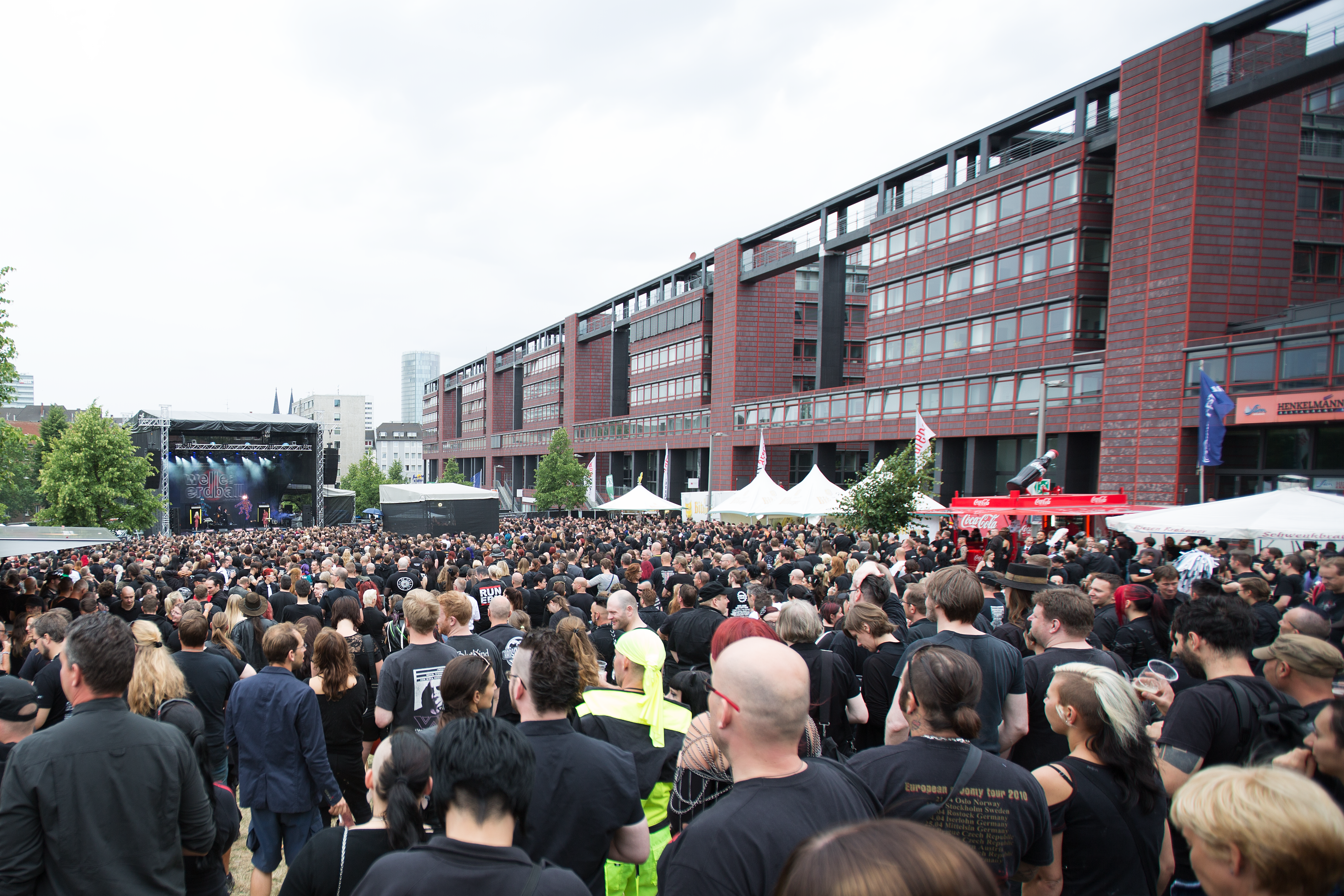 "Green Stage" of the Amphi Festival 2015 in Cologne, Germany.